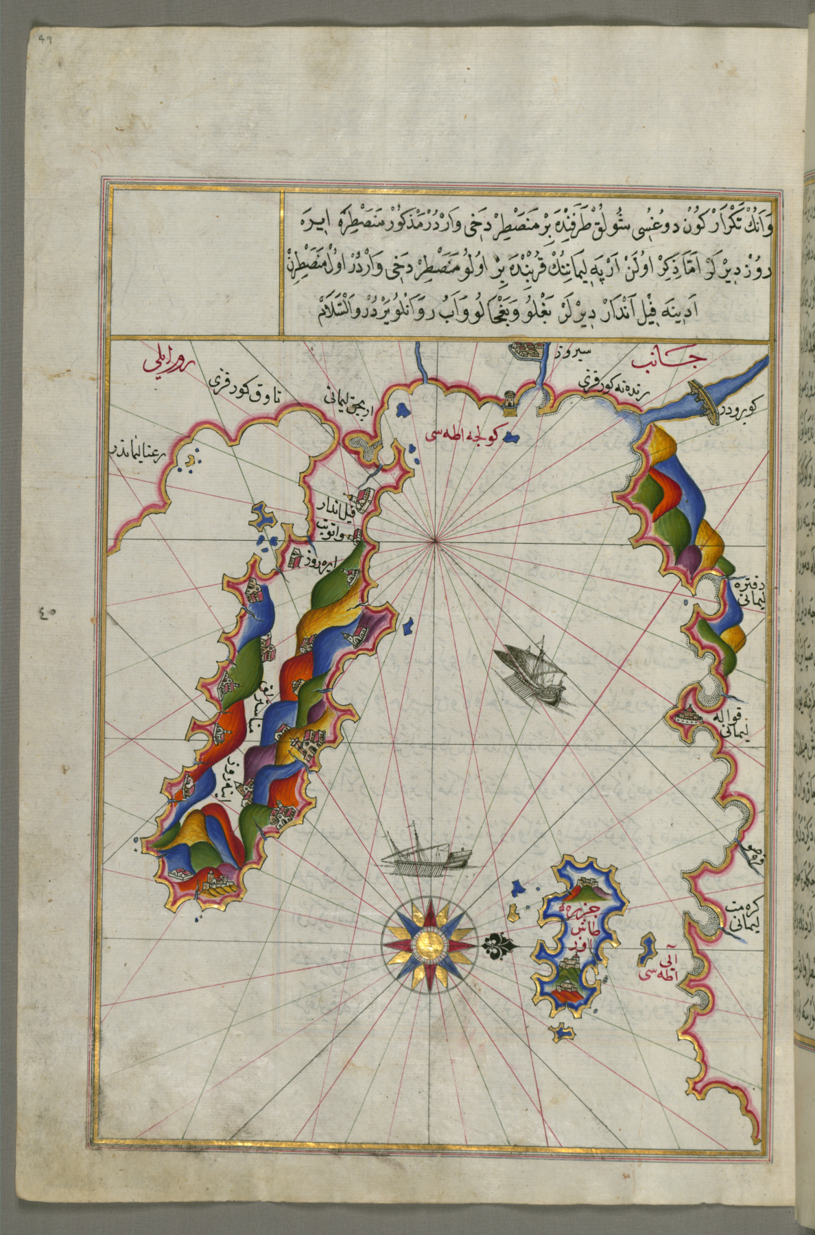 This folio from Walters manuscript W.658 contains a map of the area west of the island of Thasos (Tasöz) and the Ayion Oros peninsula.